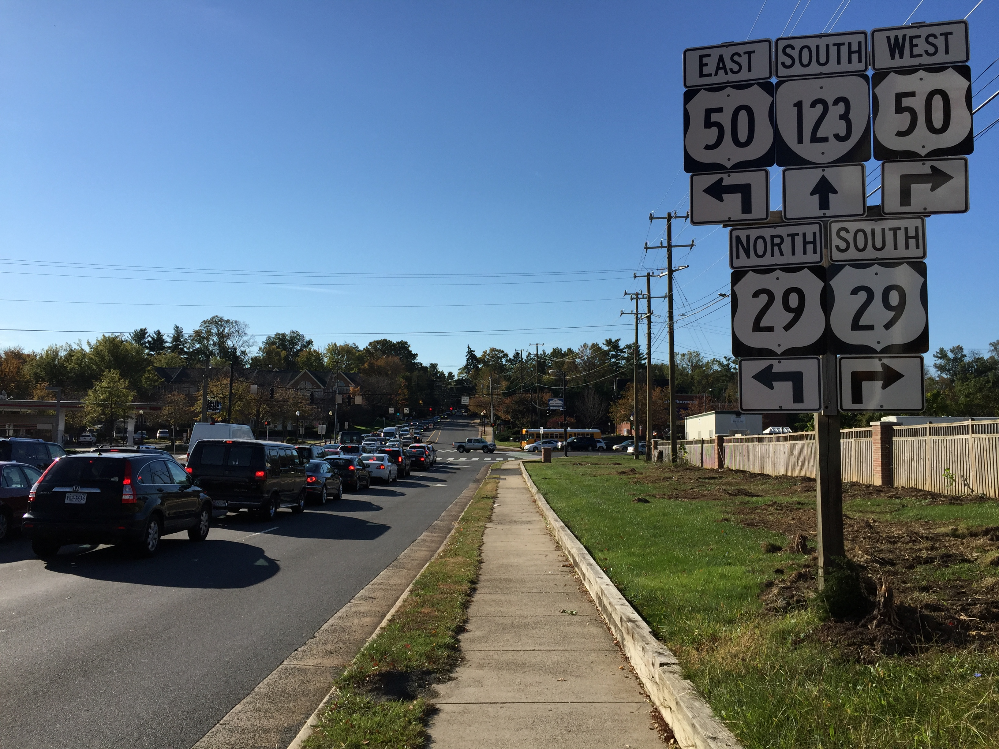 View south along Virginia State Route 123 (Chain Bridge Road) at U.S. Route 29 and U.S. Route 50 (Fairfax Boulevard) in Fairfax, Virginia